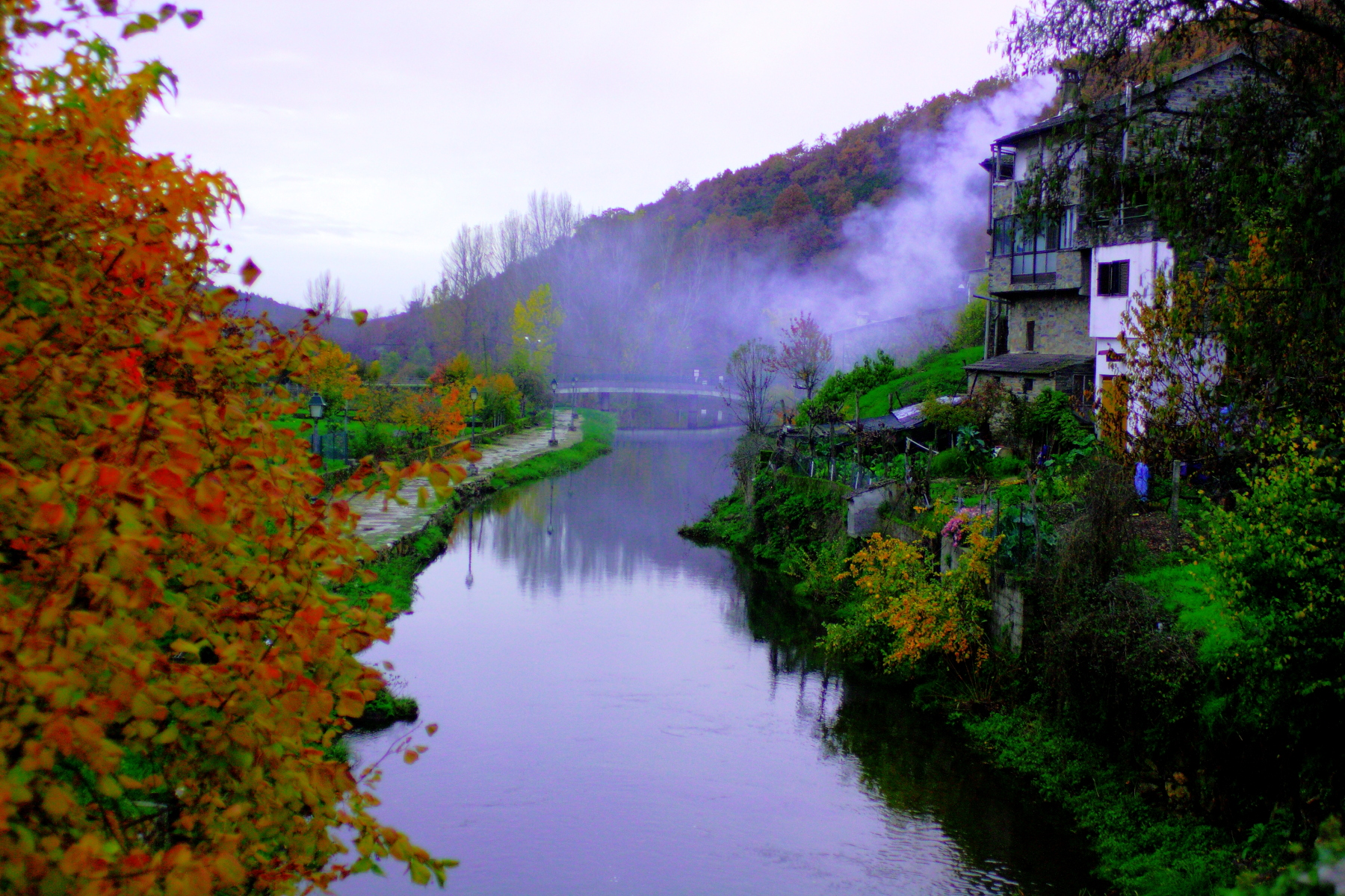 Rio de Onor village, located in the Montesinho Natural Park. This is a photography of a Site of Community Importance in Portugal with the ID: PTCON0002. Natura2000 entry, EEA entry